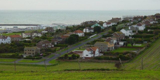 Roedean. Looking west from Cattle Hill. The western breakwater of the Brighton Marina is visible top left.